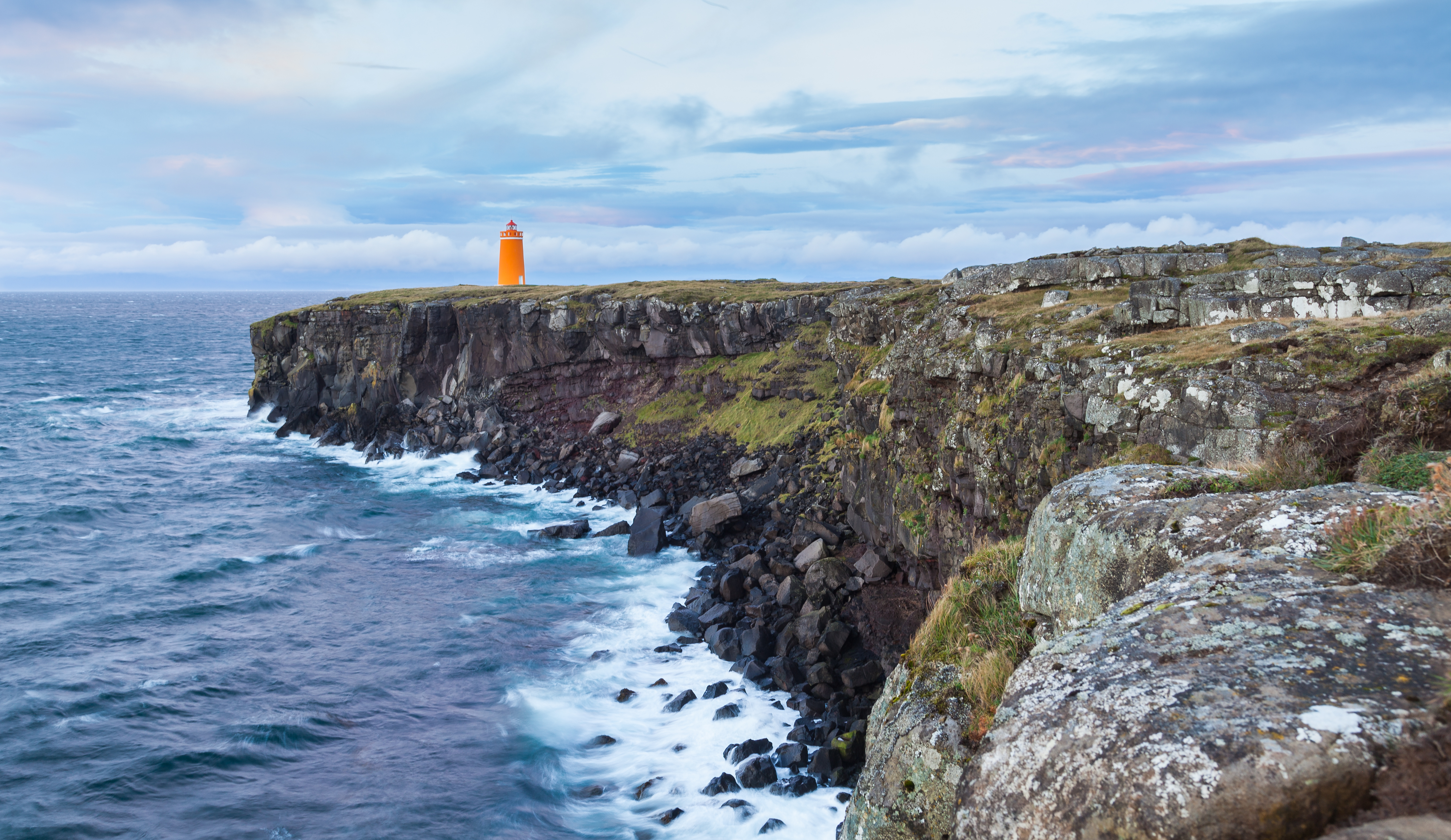 Holmbergs lighthouse, Suðurnes, Iceland